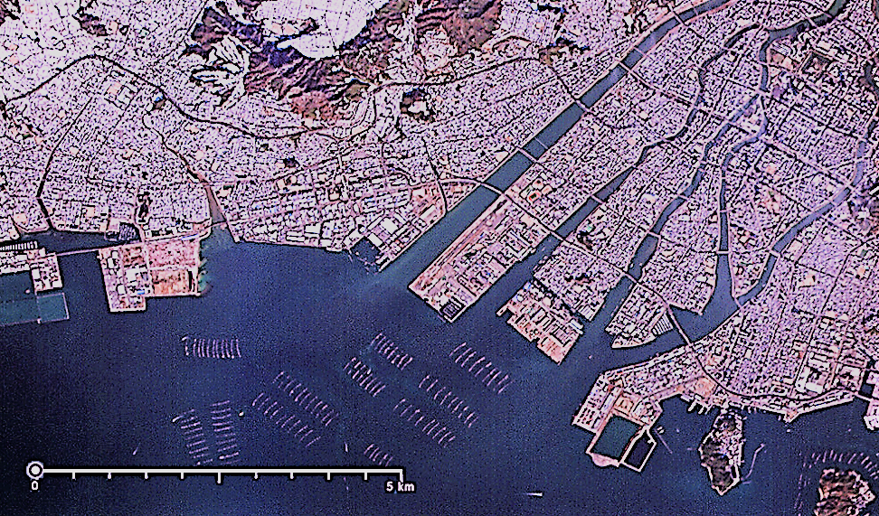 Many rafts for oyster cultivation in Hiroshima Bay